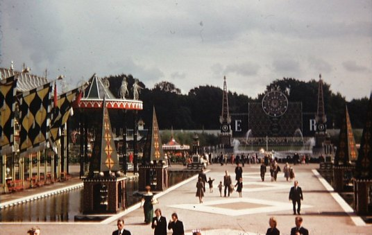 Author: Pete G. Kodachrome original, actually taken in Coronation year 1953. (Hence the "E R" at the back...) Also note the "orange seller" dressed as "Nell Gwynne" at the near left of the walkway.